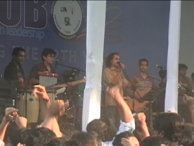 Banglaeshi band Dalchhut performing in a concert at the American International University-Bangladesh